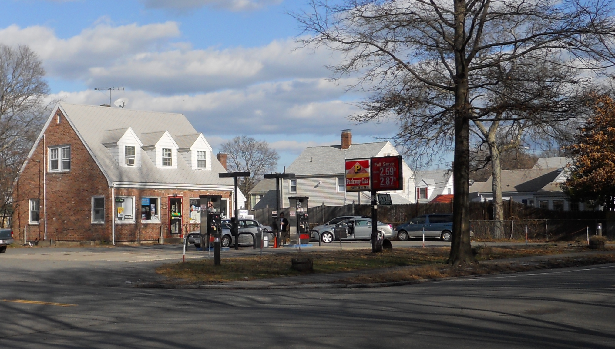 Parkway Gas, constructed in 1929, near Newport Avenue on Furnace Brook Parkway in Quincy, Massachusetts – historic information